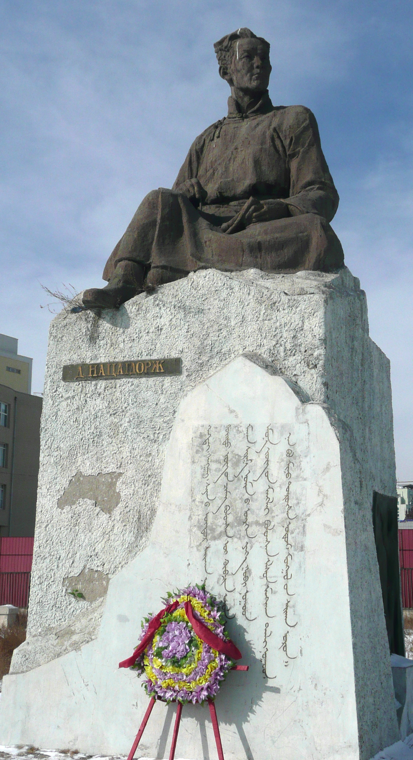 Statue of Daschdordschiin Natsagdordsch in Ulan Bator - Mongolian writer, Founder of modern Mongolian literature